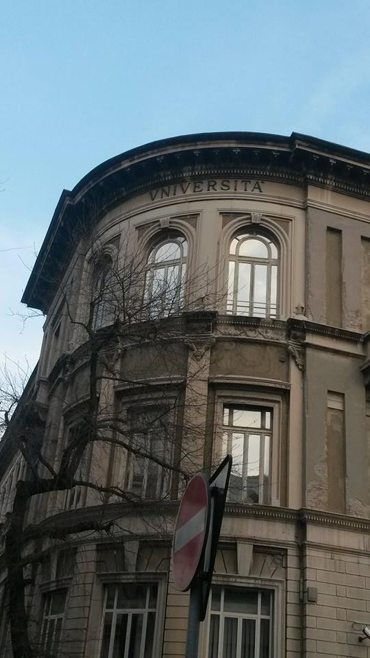 The University of Milan, departement of Mathematics "Federigo Enriques", Via Cesare Saldini 50 - 20133 Milano